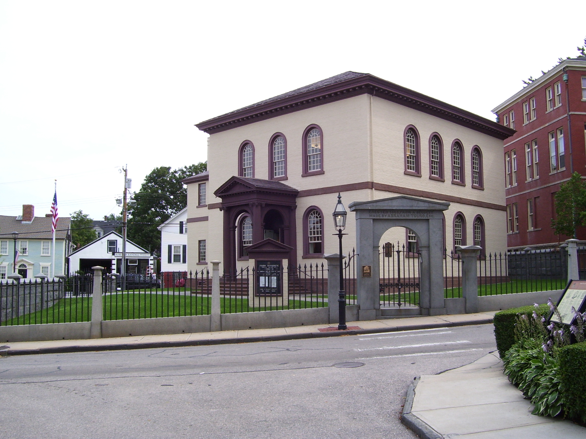 My 2009 photo of Touro Synagogue in Newport,Rhode Island.